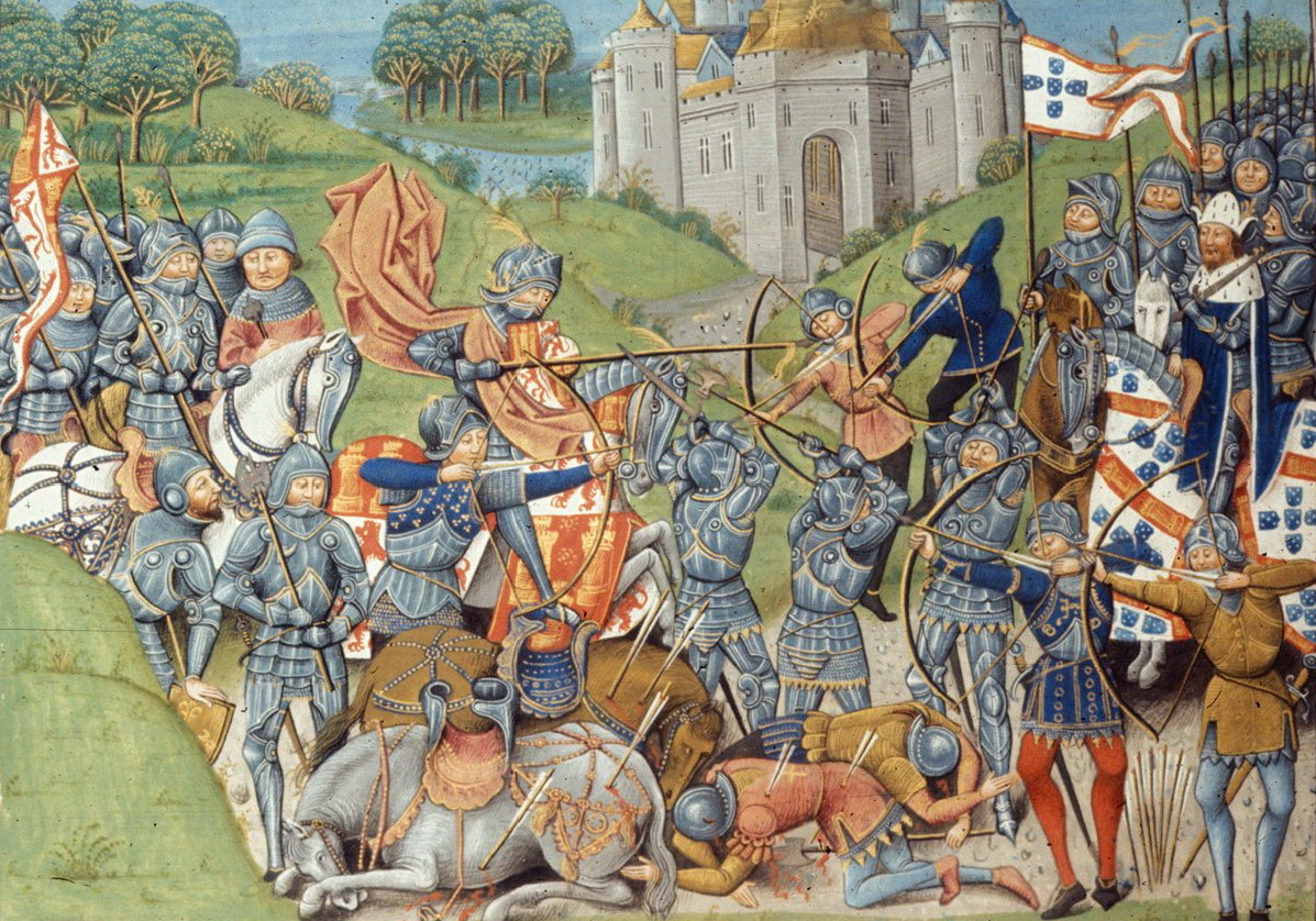 Battle between Portuguese and English army (Ferdinand I of Portugal, right) and a French vanguard of the King of Castile (John I of Castile, left). (British Library, Royal 14 E IV f. 201v)